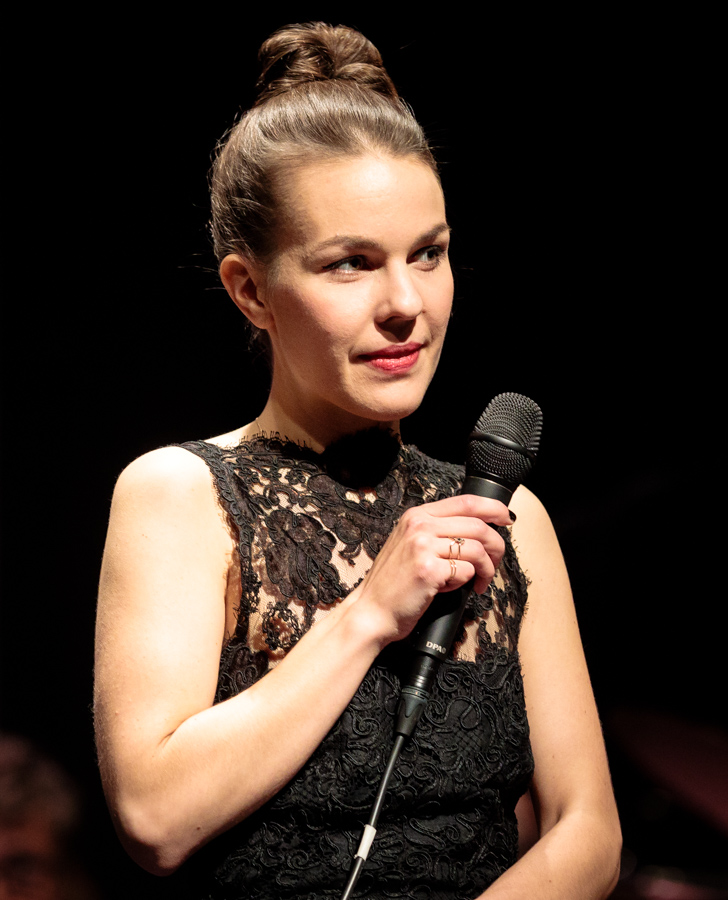 Isabella Lundgren at Monica Zetterlund jubilee concert at Cosmopolite in Soria Moria. The concert celebrated the late Monica Zetterlund and took place on 29. October 2017 Lineup: Rigmor Gustafsson (vocal) Isabella Lundgren (vocal) Mats Hålling (conductor) Unknown (drums) Unknown (double bass) Unknown (piano) Det Norske Blåseensemble